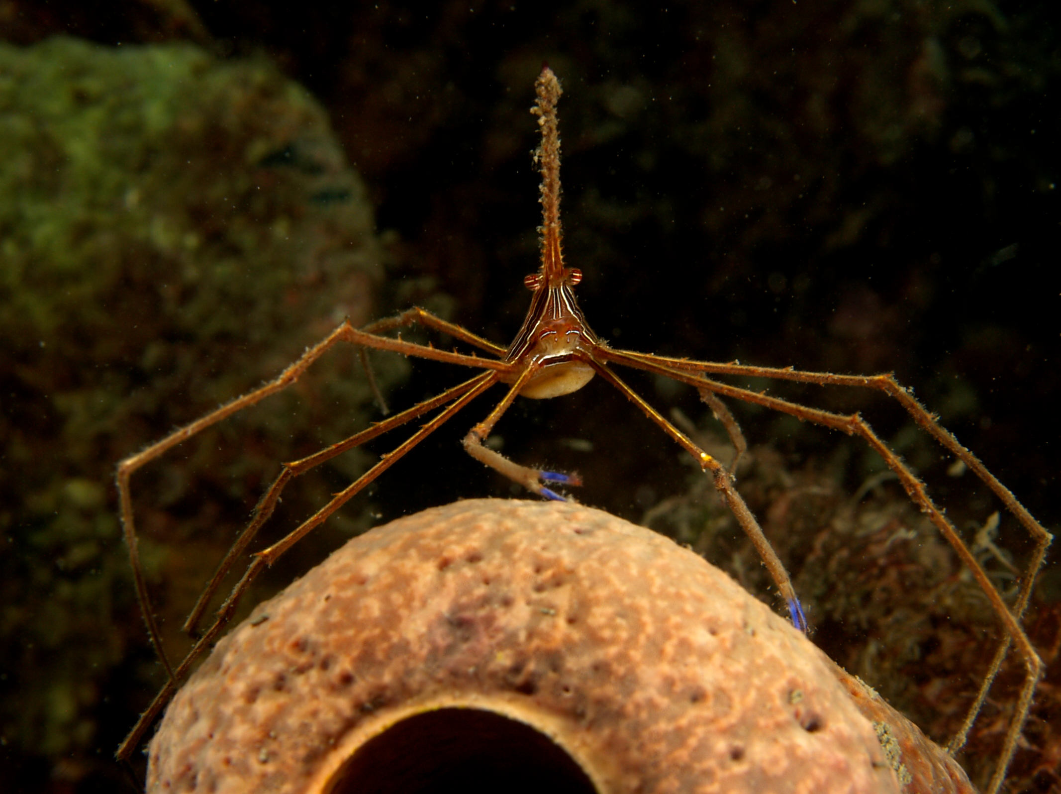 Stenorhynchus seticornis (Yellowline Arrow Crab)